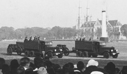 GMC 6x4 T-18 trucks are towing some artillery pieces (Bofors 105-mm M1924?) on a military parade in Batavia (now Jakarta)